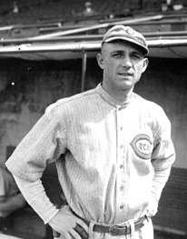 Picture of Heinie Groh